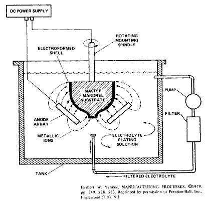 Original caption: A typical electroforming setup. Category:Advanced Automation for Space Missions